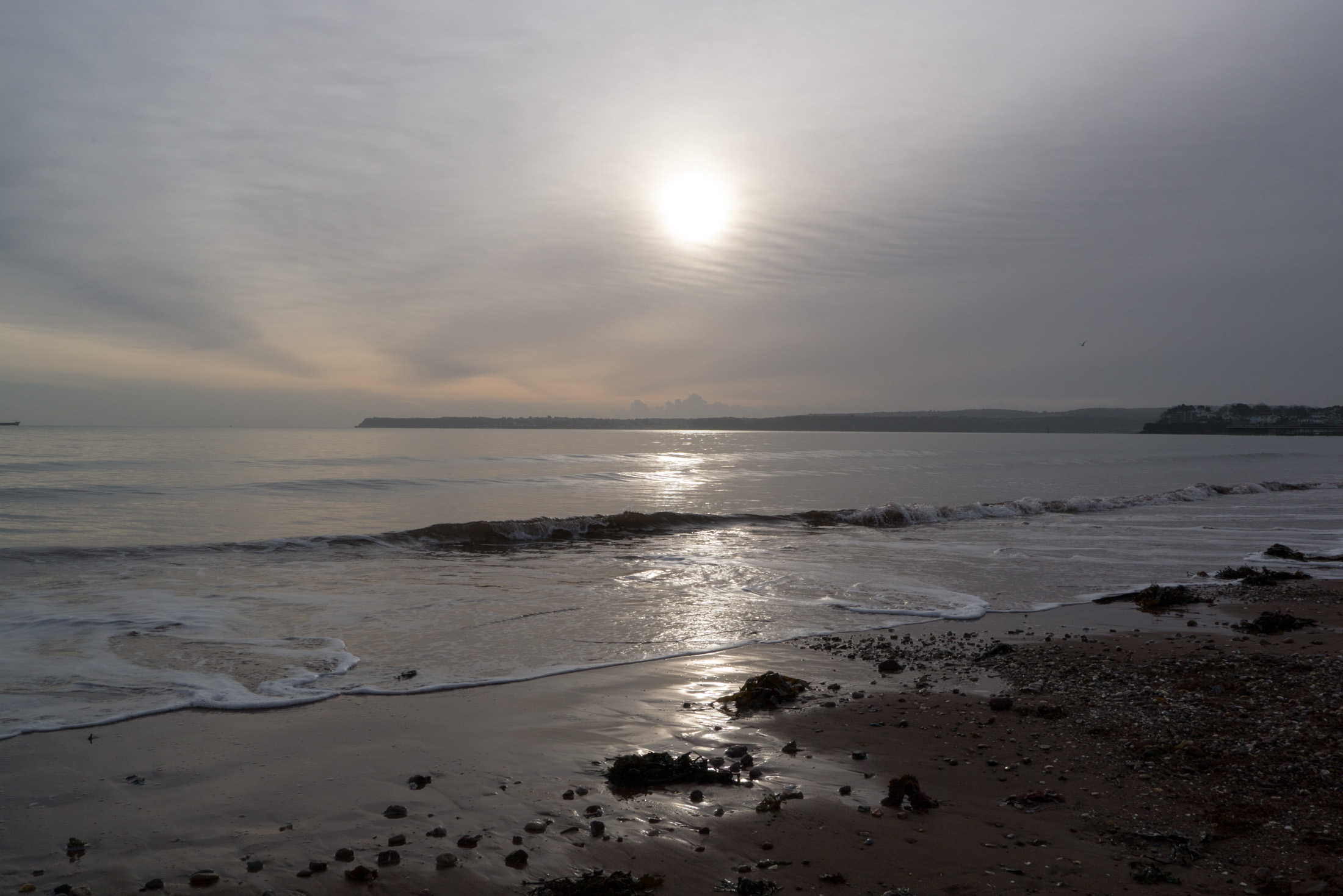 Pale winter sun of the coast of South Devon.